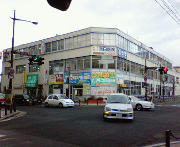 Morioka Bus Center